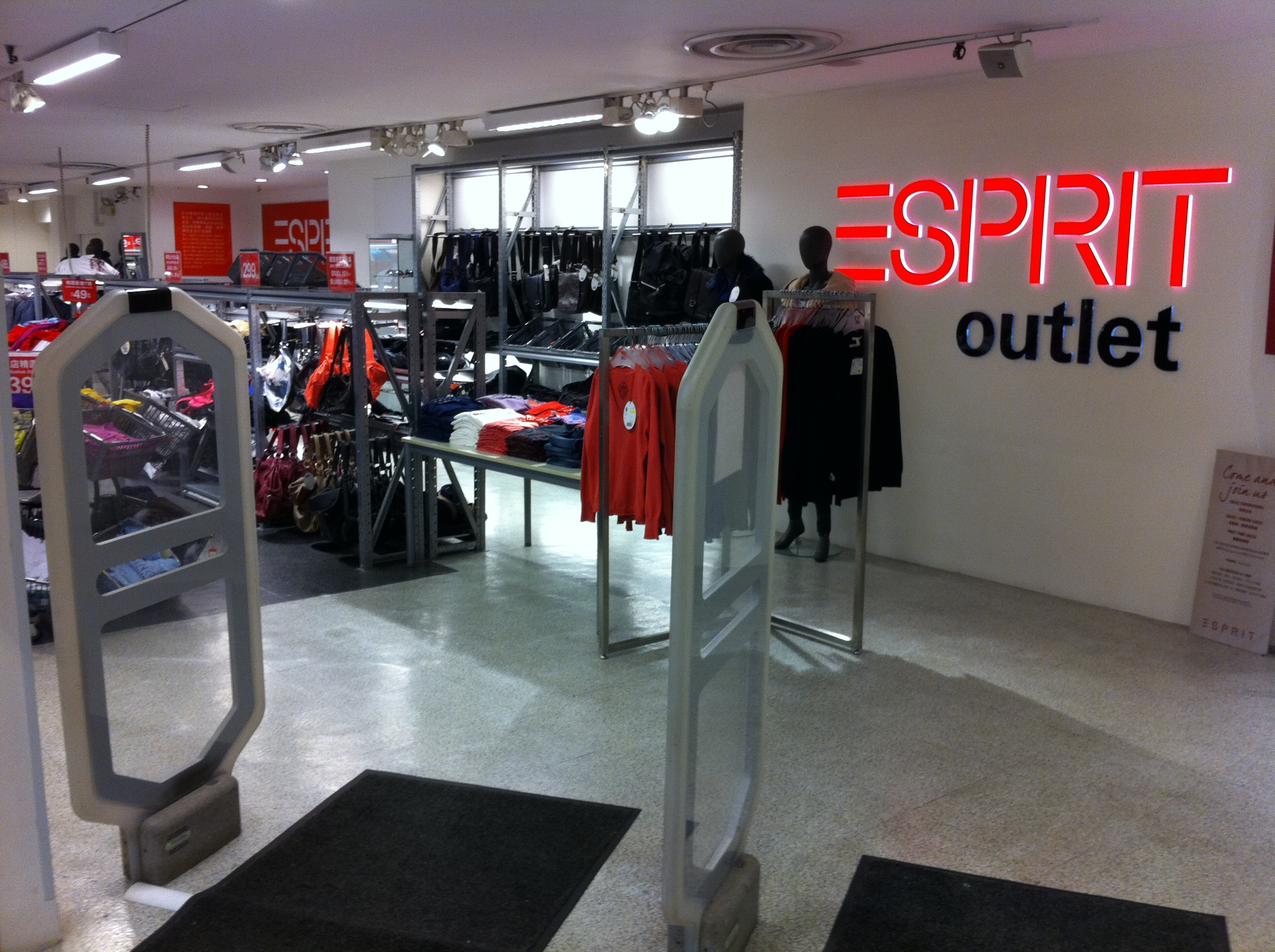 北角英皇道新都城大廈, Metropole Building, King's Road, North Point, Hong Kong